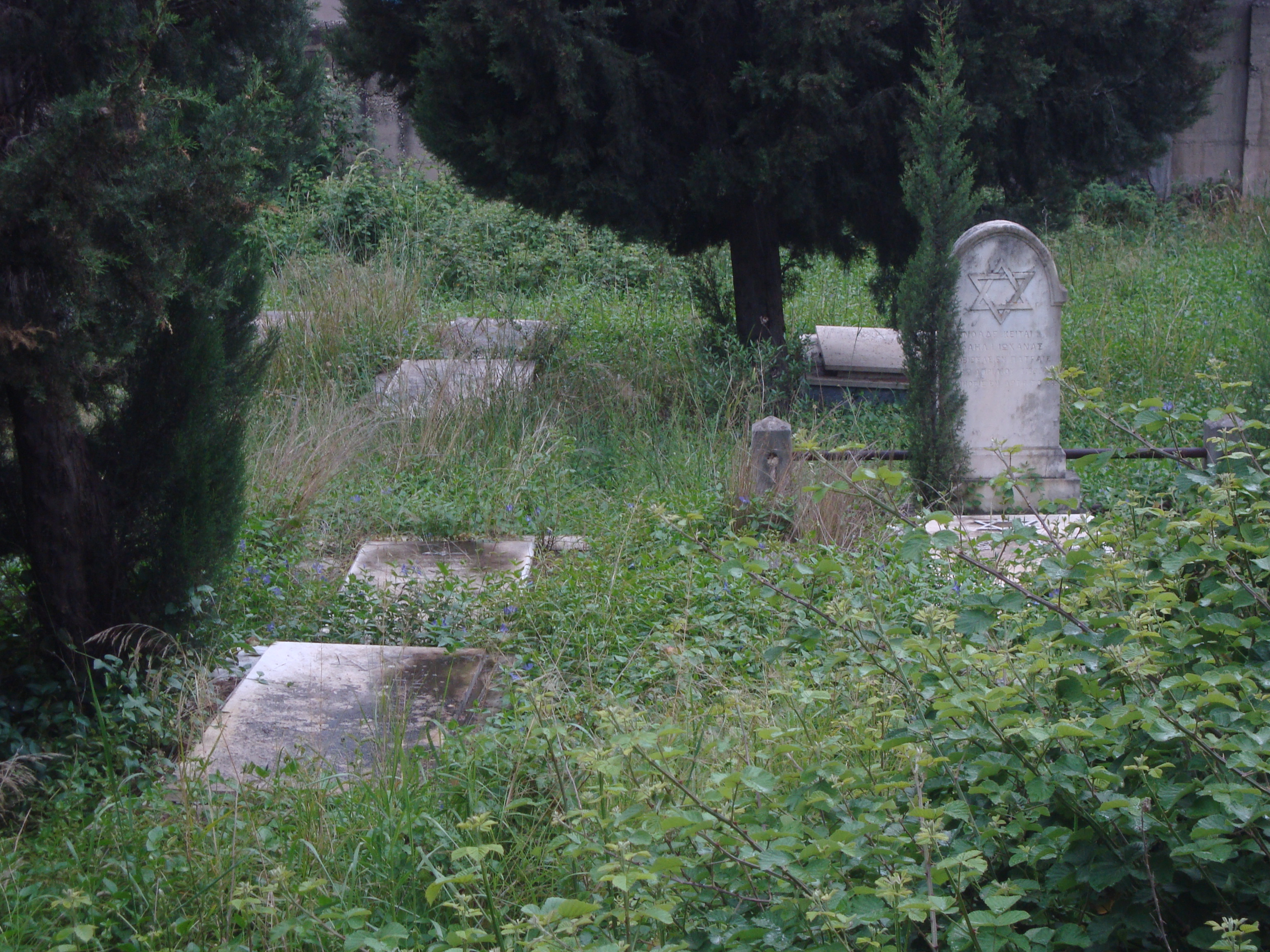 Jewish area in first cemetery of Patras